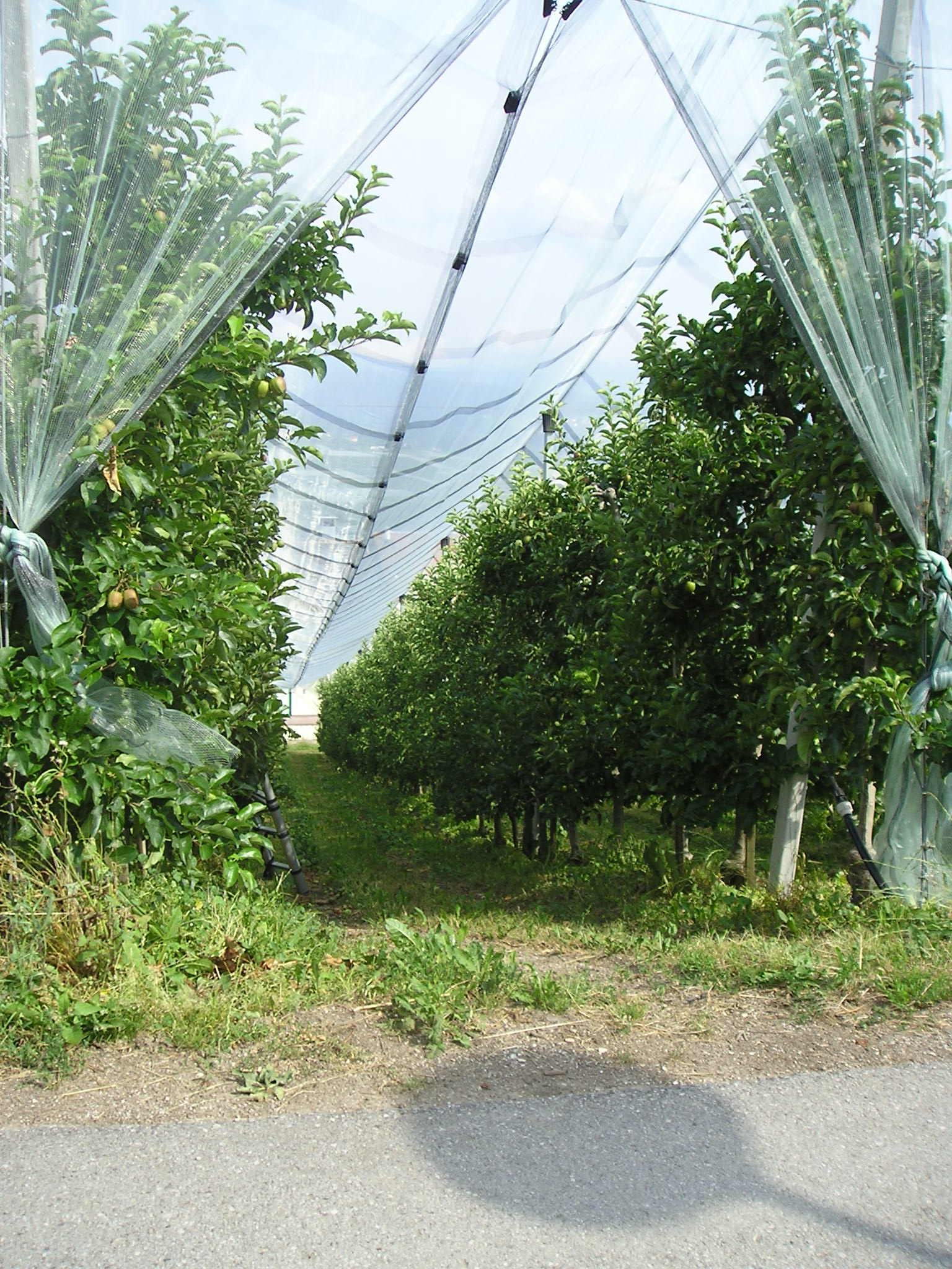 Apple trees being cultivated under nets to prevent bird damage to the crop at Revò in the Val di Non